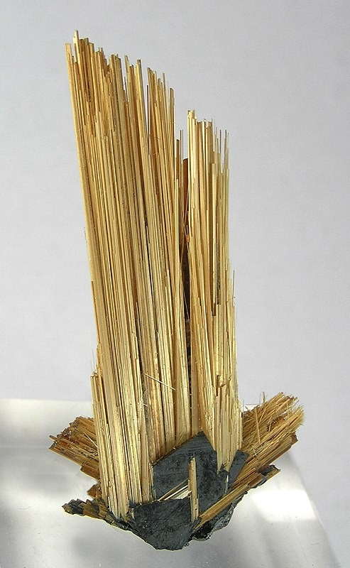 Rutile, Hematite Locality: Novo Horizonte, Bahia, Northeast Region, Brazil (Locality at ) Size: 6 x 3 x 0.3 cm. These absolutely stunning rutile crystals are nearly 6 cm in length, and shooting straight up from a platy hematite at the bottom.